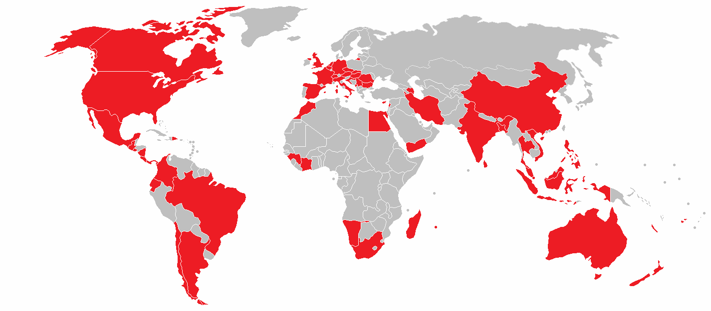 Holcim factories around the world